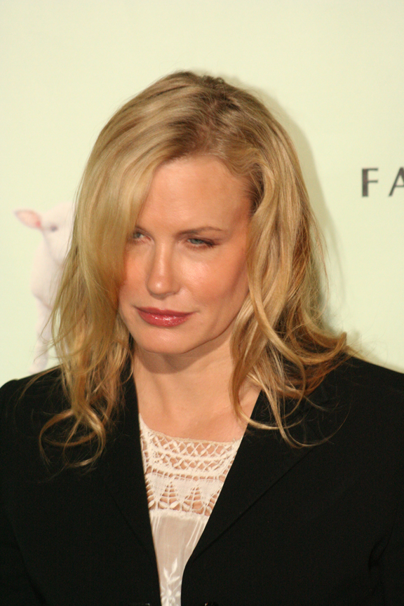 Daryl Hannah at the Farm Gala in 2006.